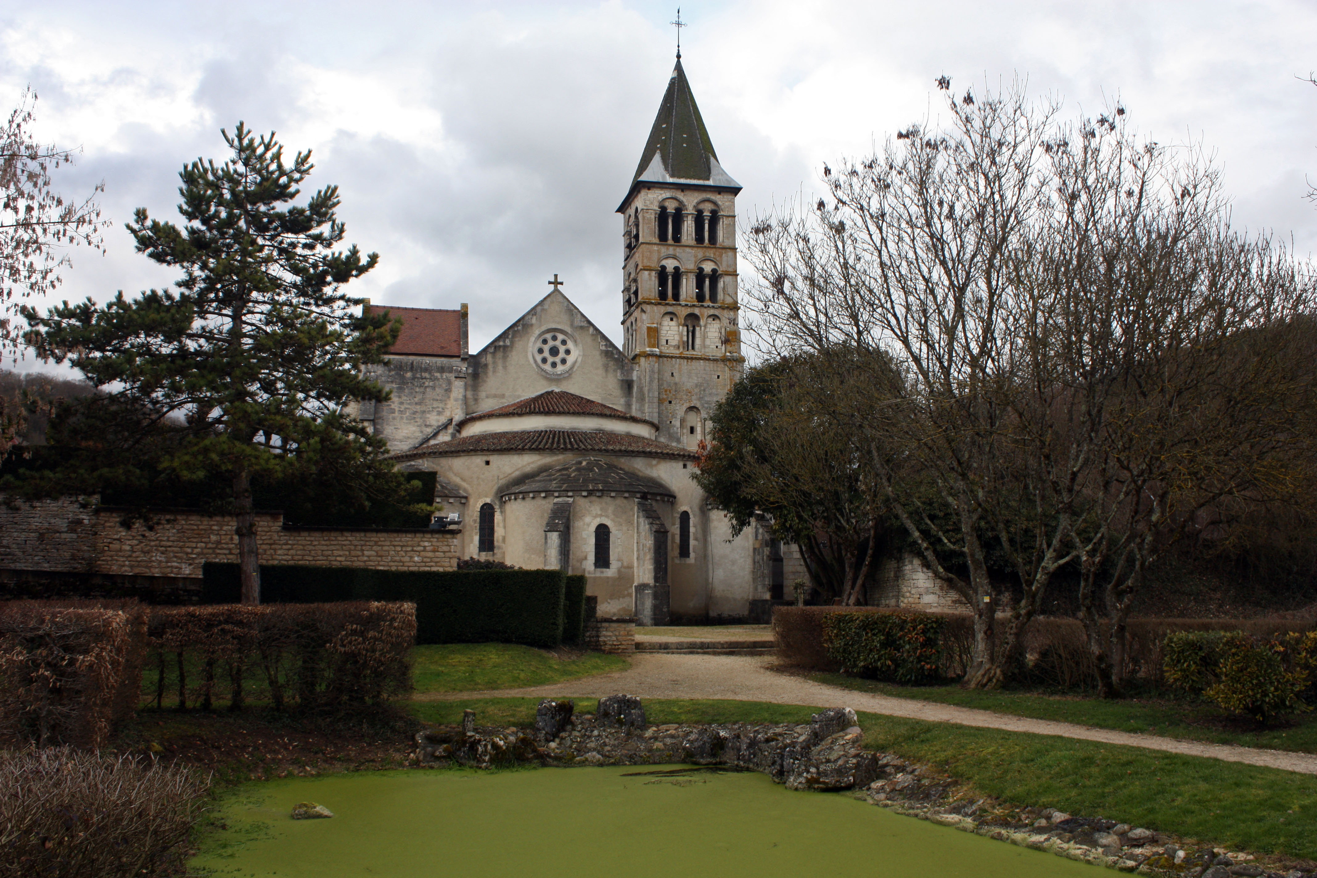 The apse, view of the old moat, now filled. The pond and the source that feed it are the last vestiges.